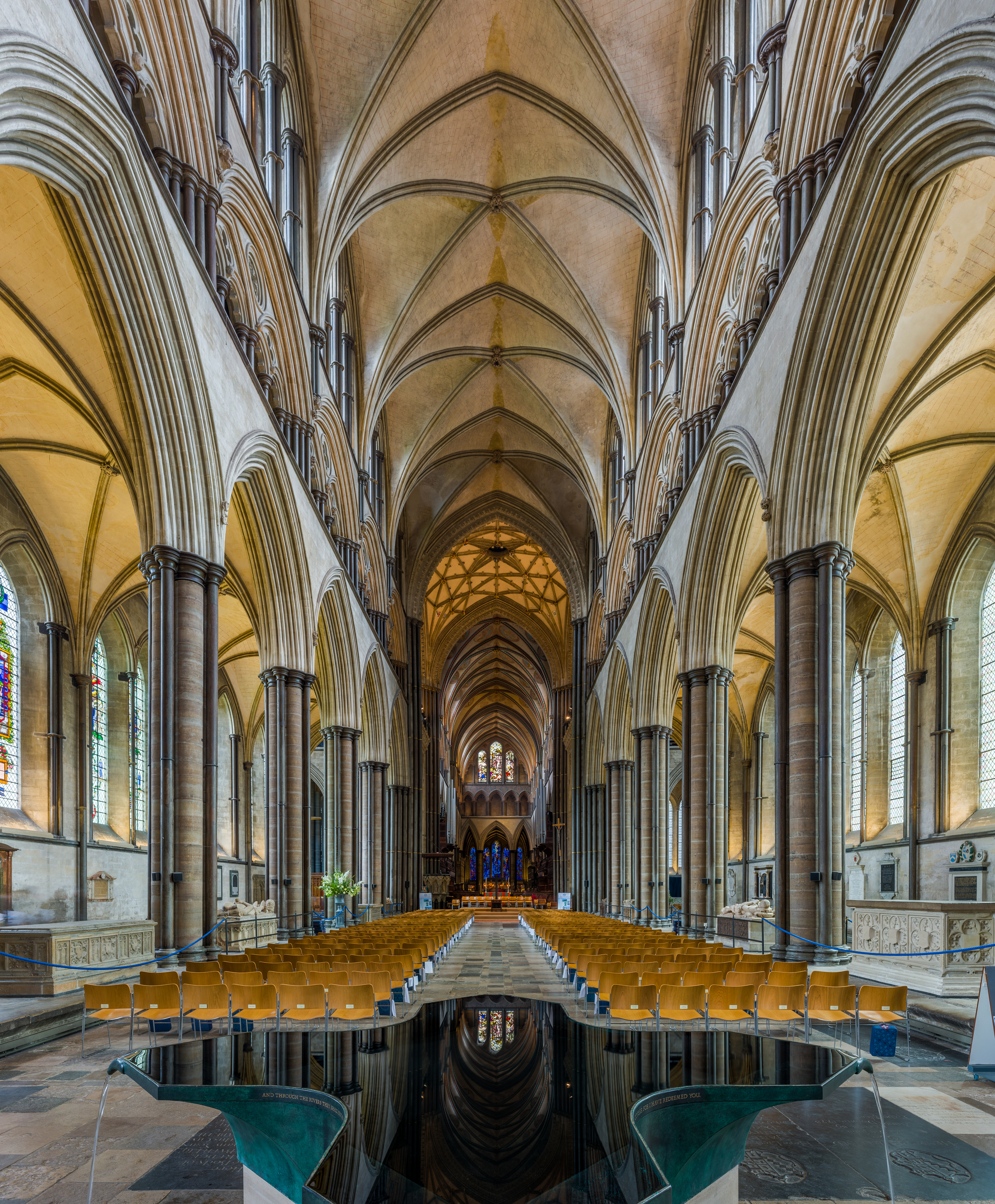 The nave of Salisbury Cathedral in Wiltshire, England, looking east from the font.